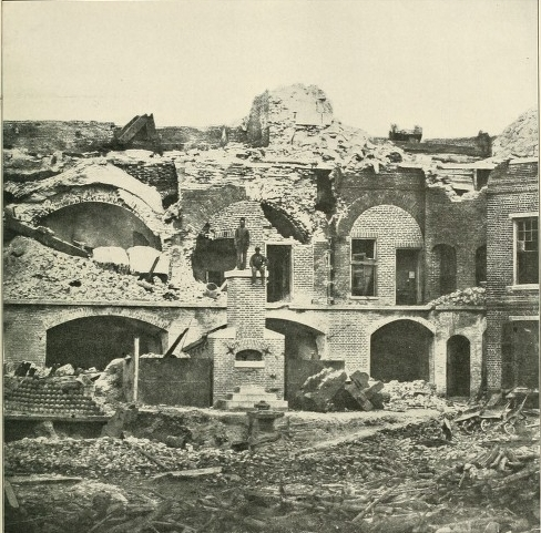 Photo taken of eastern barracks and hot shot furnace during the bombardment of Fort Sumter on Sept. 8, 1863.